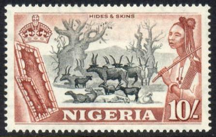 A 1953 10 shilling stamp of Nigeria.